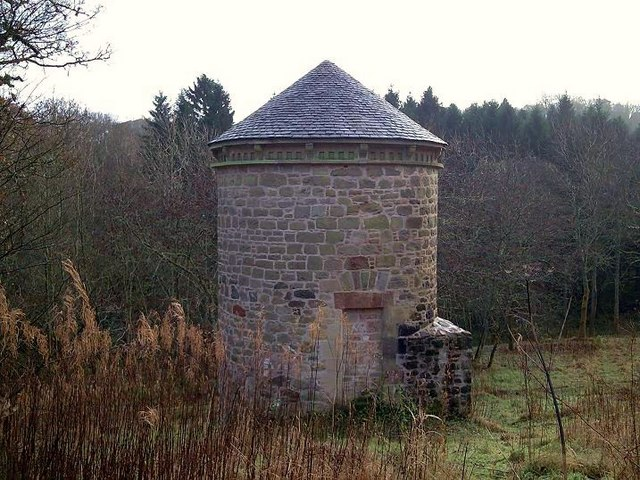 Dovecote Viewed from the rear. Both front and rear entrances are bricked up.